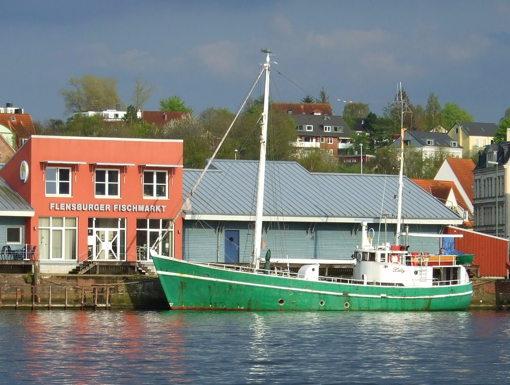 Auxilary Bermuda Ketch LILLY, the former "Kriegsfischkutter" KFK 144 in her port of registry Flensburg, Germany